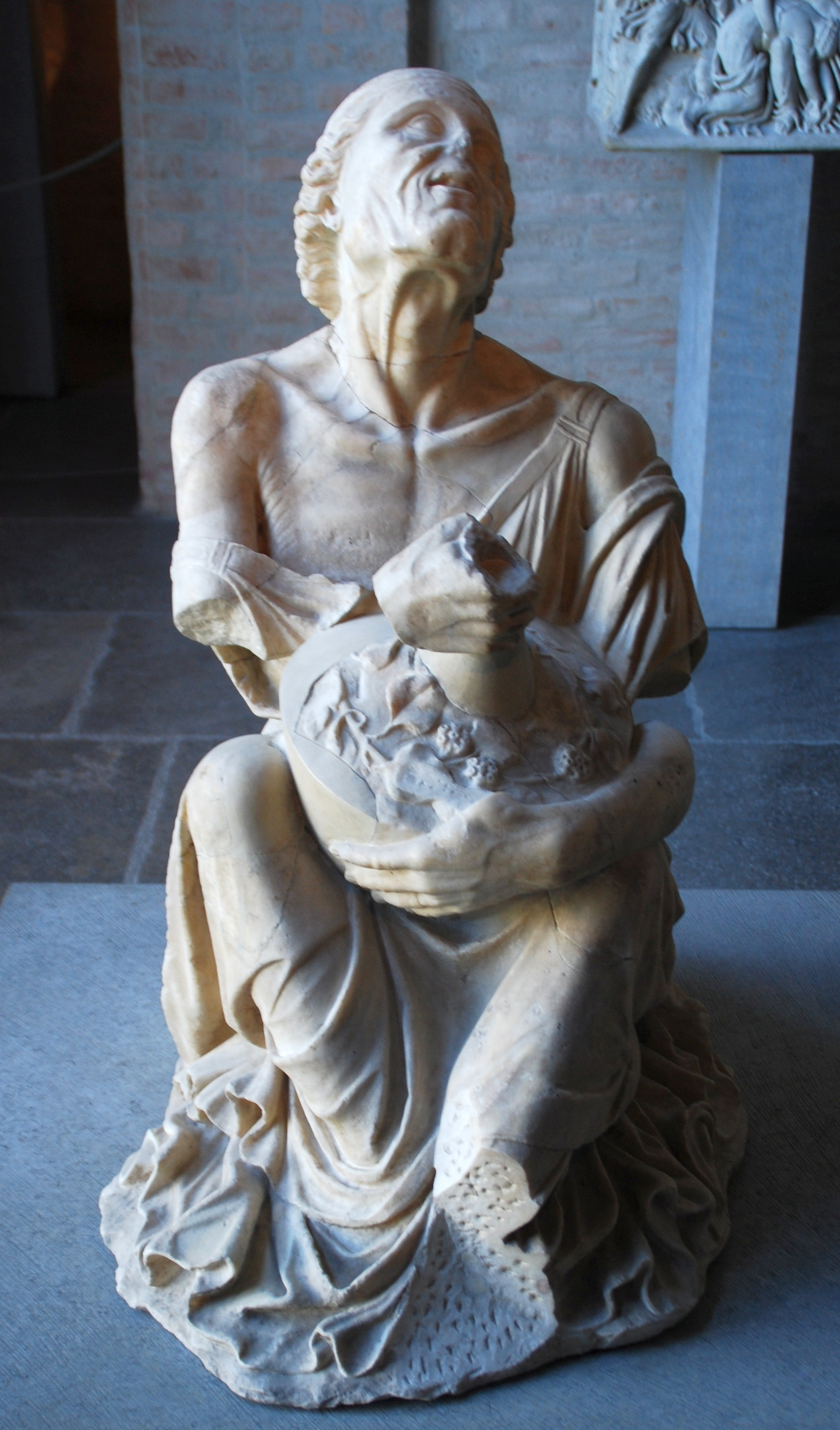 Drunken old woman clutching a big lagynos (Hellenistic wine jug) decorated with reliefs. Marble, Roman copy after a Greek original of the 2nd century BC (200–180). According to Roman tradition, this famous statue type was credited to an artist called Myron.